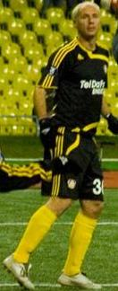 Sergej Barbarez